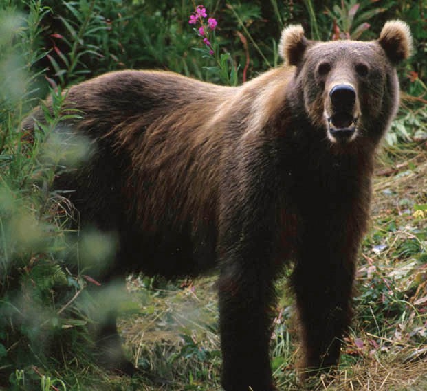 Kodiak Brown Bear (Ursus arctos) in Kodiak National Wildlife Refuge, Alaska